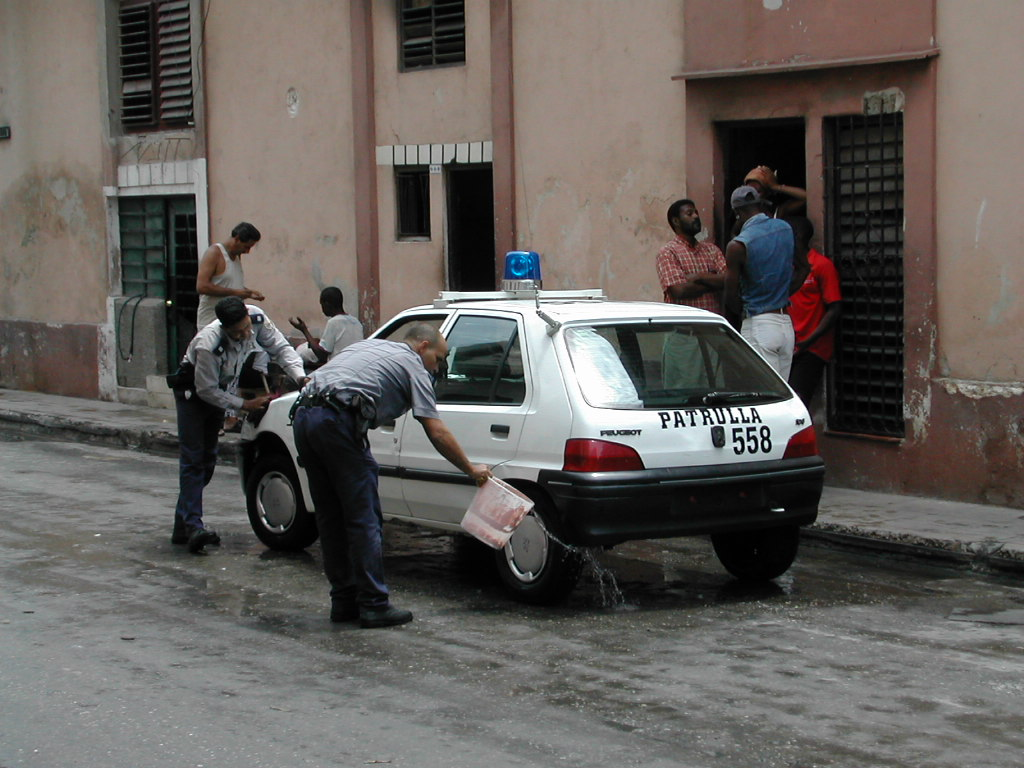 Sunday morning in Havana, Cuba